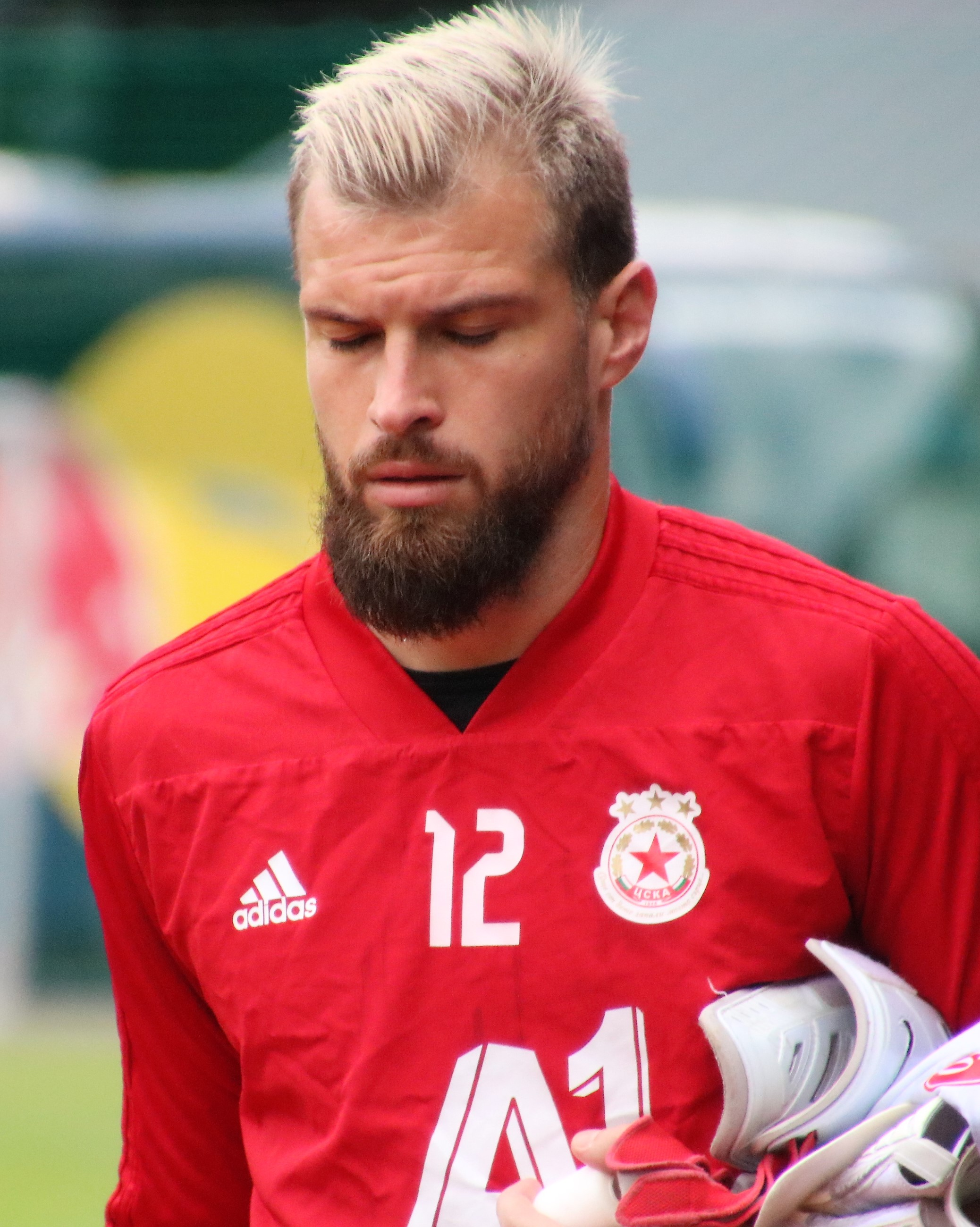 Preseason match FC Salzburg